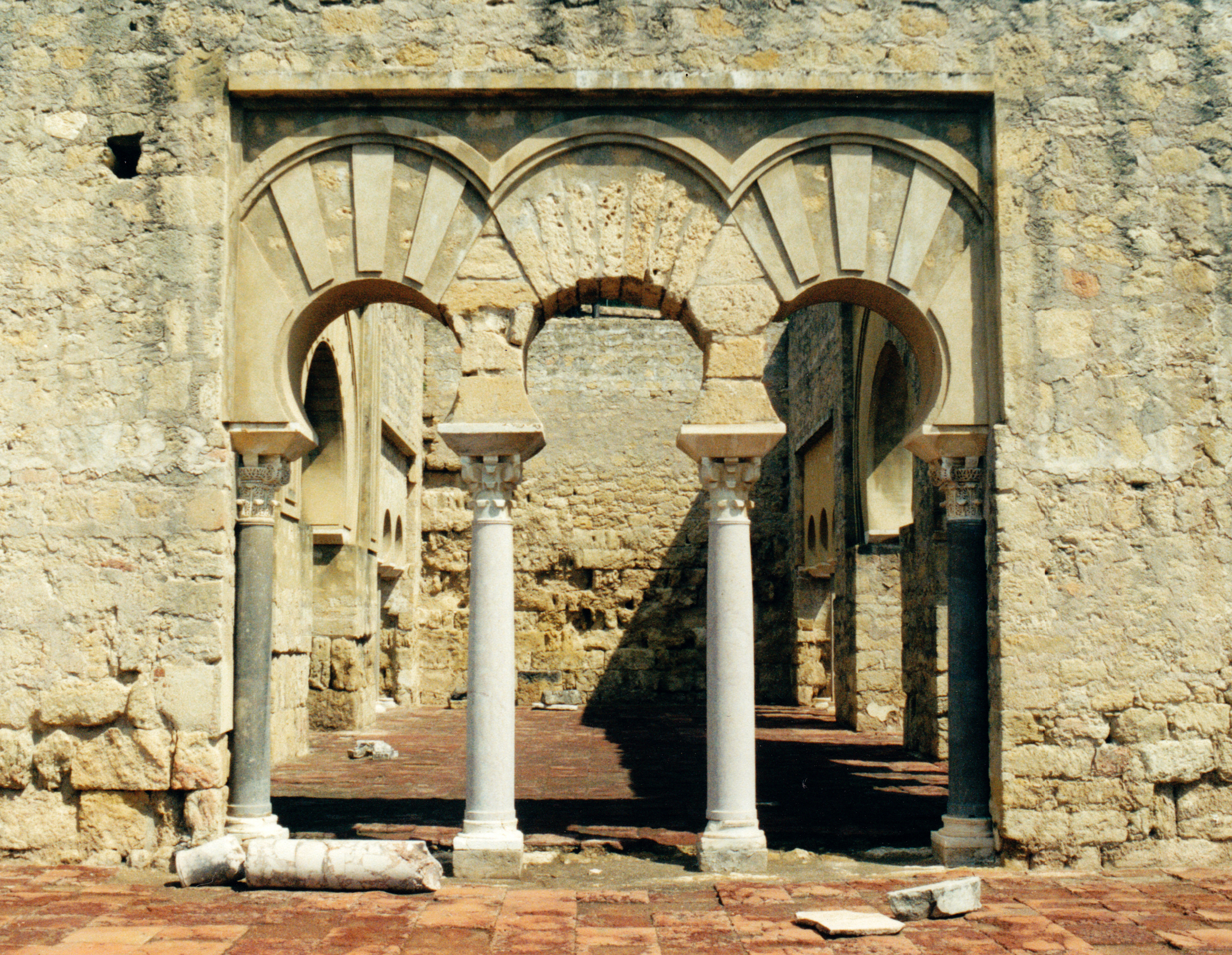 Horseshoe arches, Medina Al-Zahra - Dar-Al-Wuzara, Andalusia